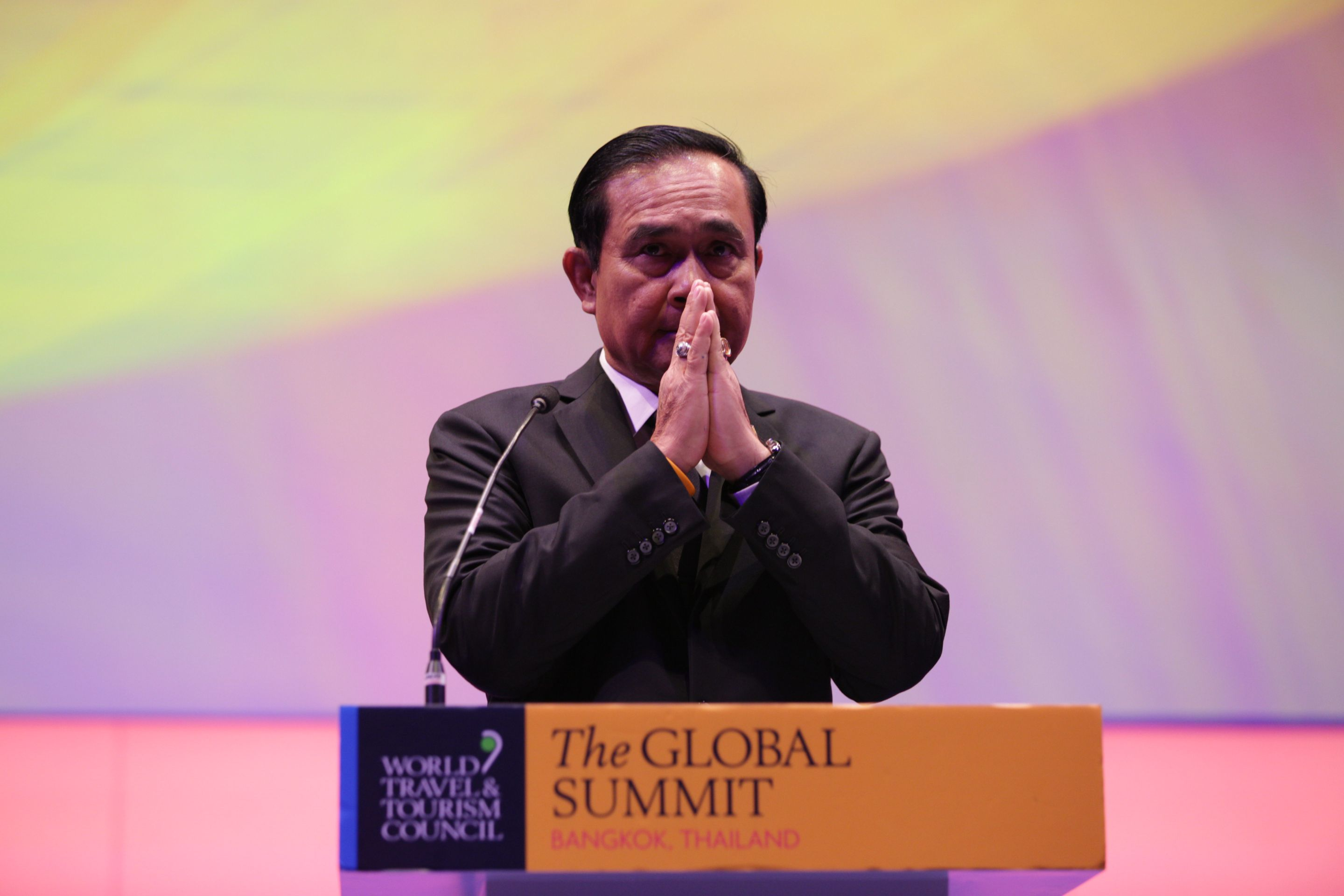 H.E. General Prayut Chan-o-cha, Prime Minister, Kingdom of Thailand WTTC Global Summit 2017